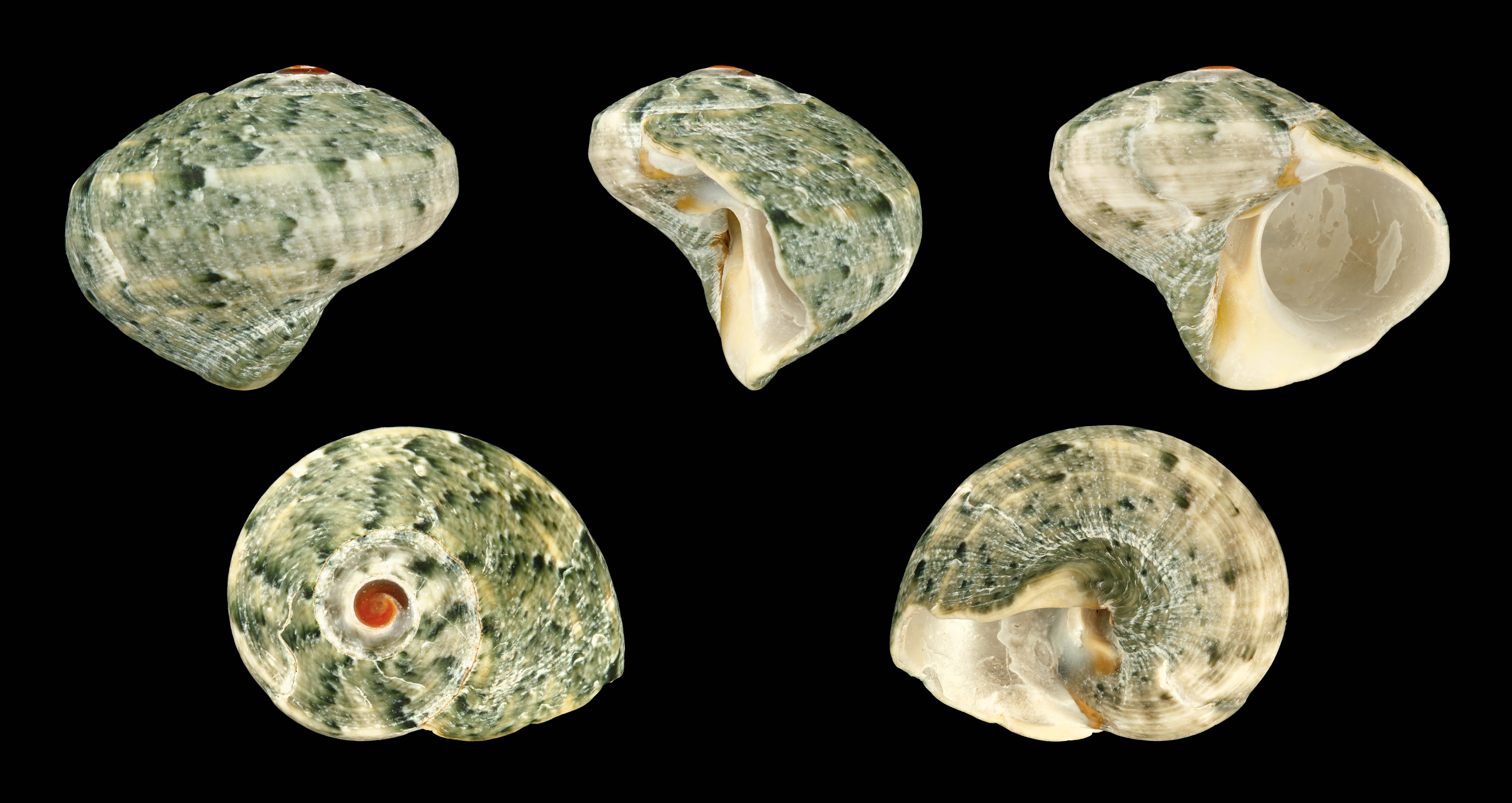 Smooth Moon Turban; Diameter 1.9 cm; Originating from Sipalay, West-Negros, Philippines; Shell of own collection, therefore not geocoded.